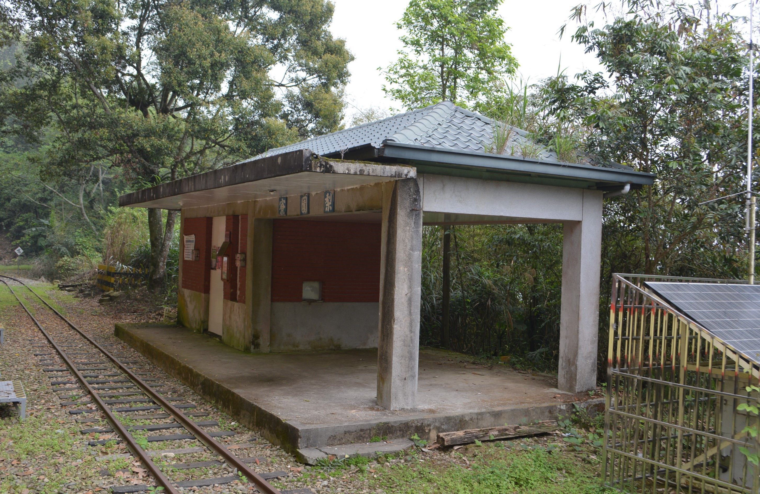 Liyuanliao Station,Chiayi district,Taiwan